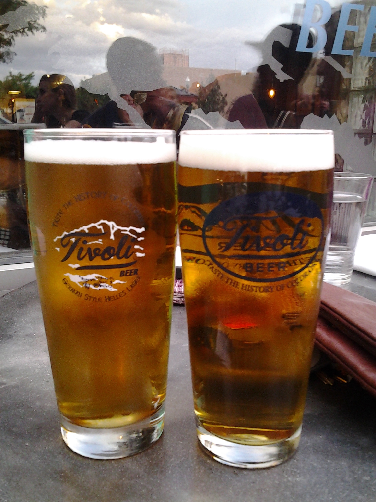 A crisp refreshing German Helles Lager with a bold Bavarian flavor since 1864. Denver Colorado. Tivoli Beer